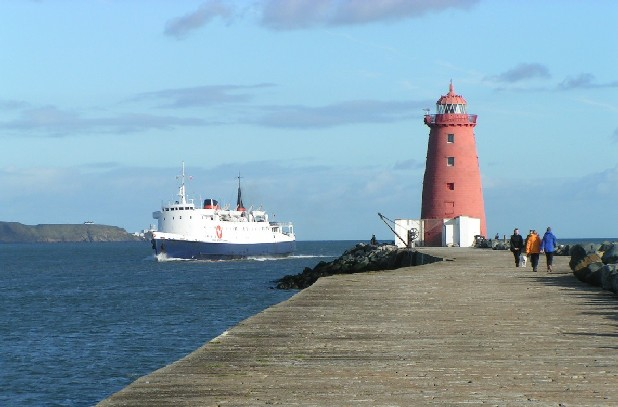 Colm R Saunders I took this photo and would like to add it for public use